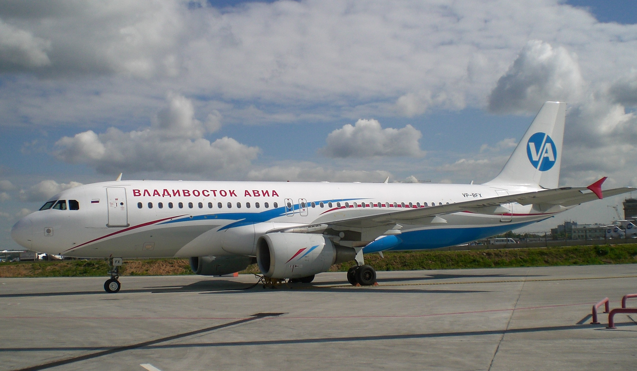 Vladivostok Avia A320 VP-BFX in Moscow-Vnukovo